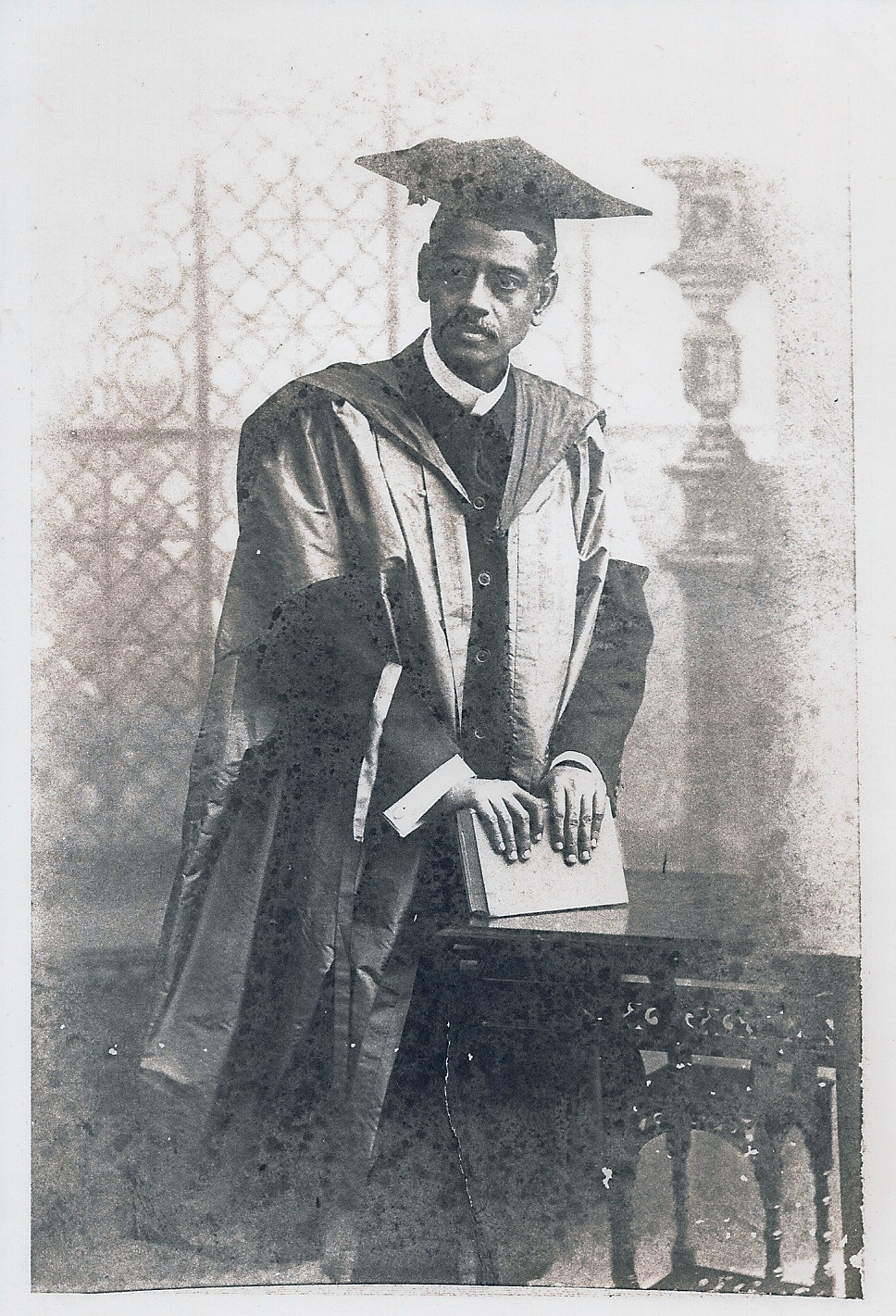 Lt. Col. Dr. Suresh Prasad Sarbadhikari